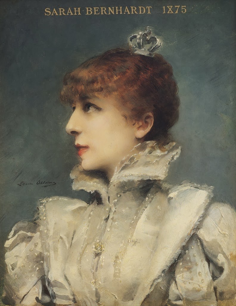 Sarah Bernhardt in 1875, portraied by her lover Louise Abbéma